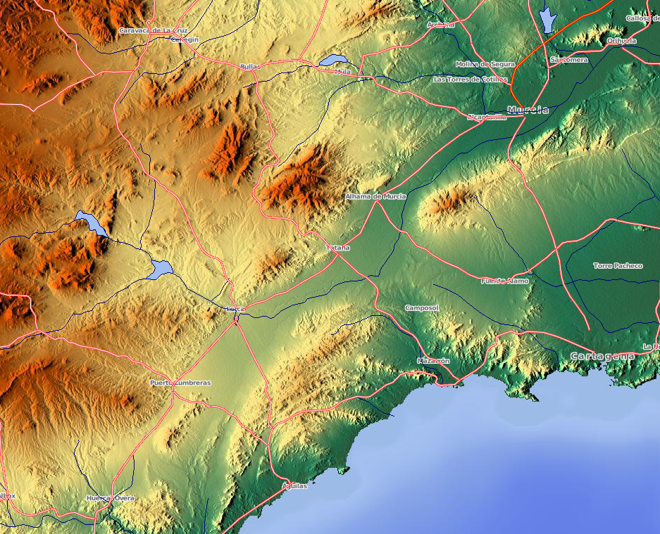 Relief map of Lorca vicinity, Murcia